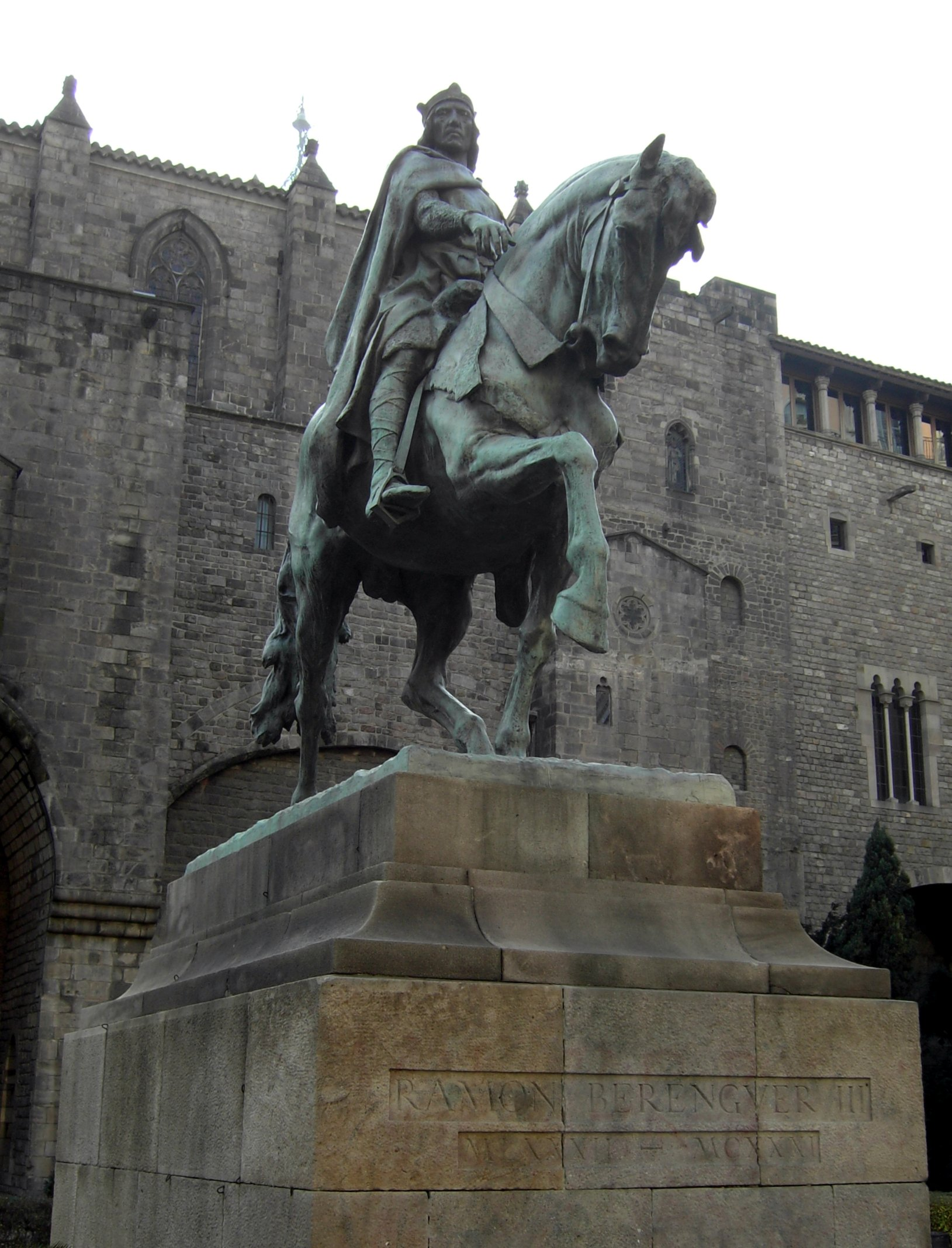 Statue by Josep Llimona i Bruguera, 1888.